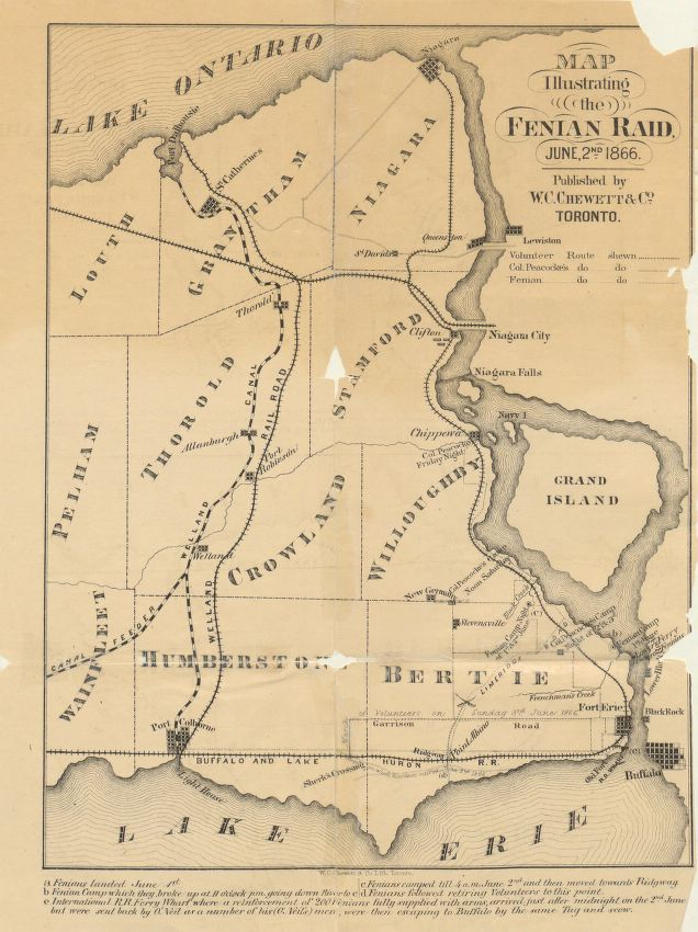 A map illustrating the Canadian and Fenian movements during the Niagara raid on June 2, 1866 in Ontario.